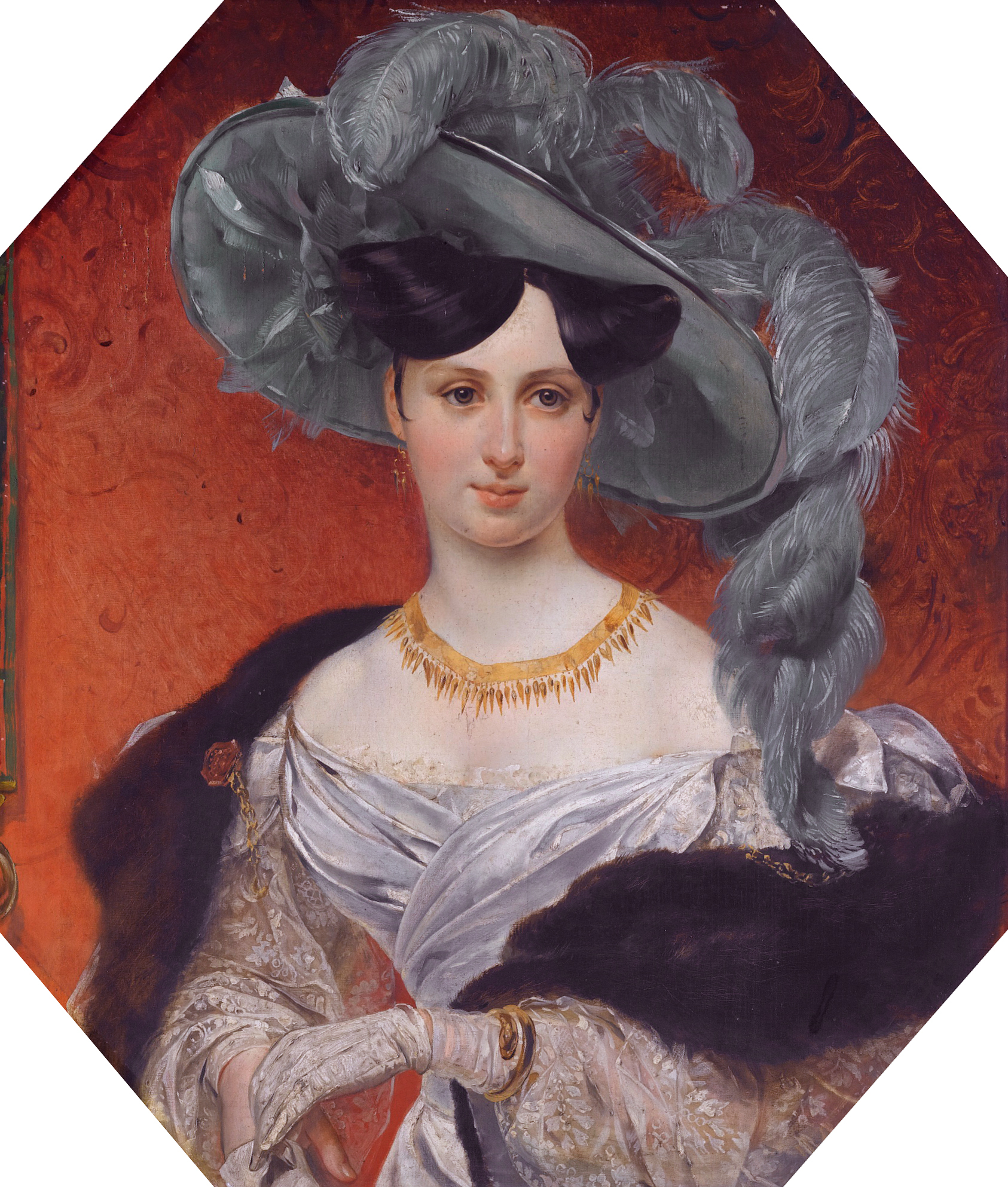 Princess Stephanie Radziwil (1809-1832) married Lev Petrovich Wittgenstein (1799-1866) in 1828 oil on canvas 87 x 74.8cm